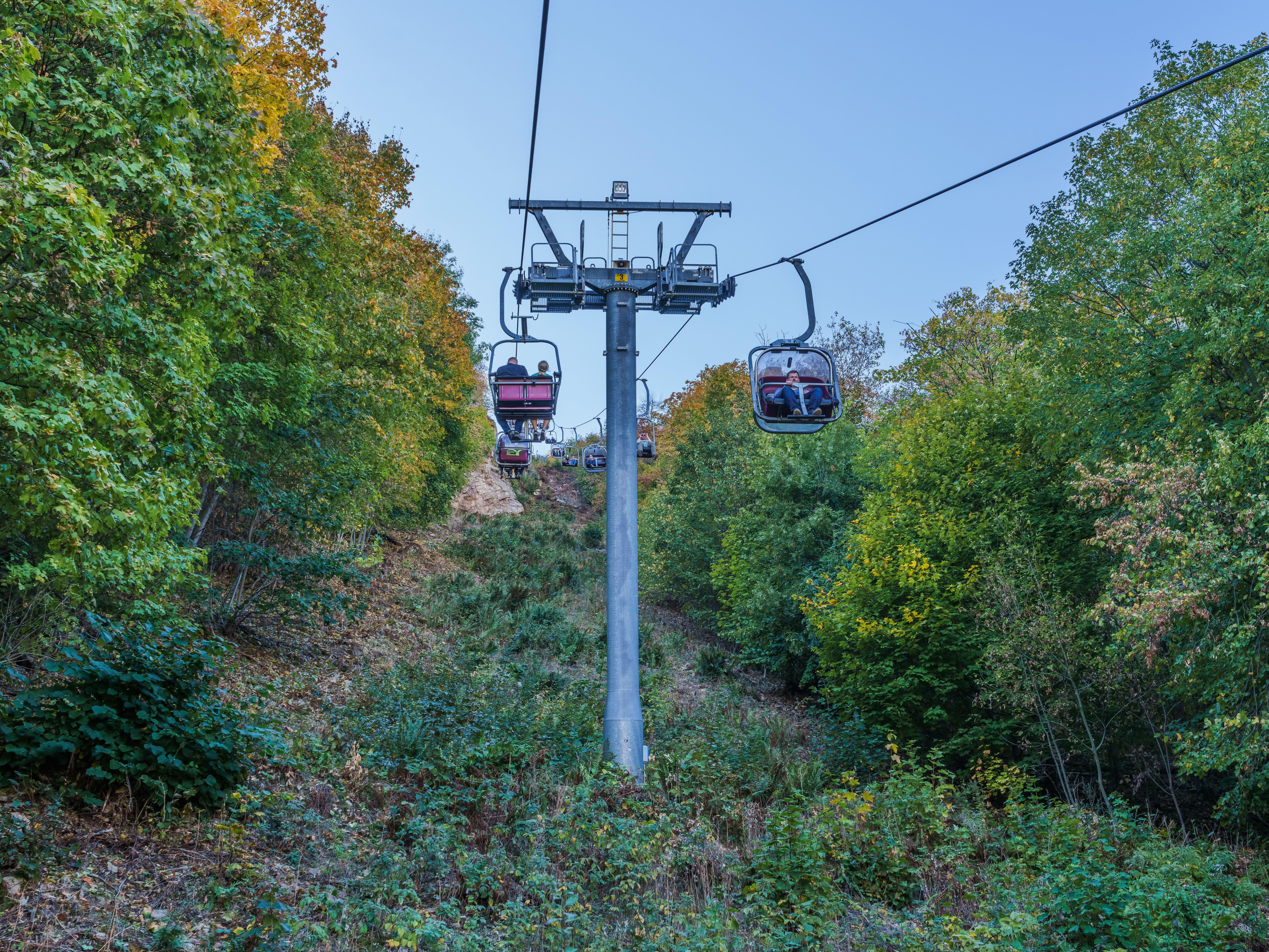 Chairlift to Rosstrappe Hill in Thale, Germany